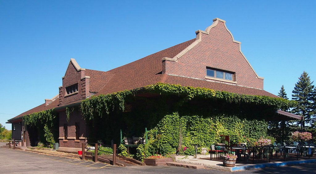 Great Northern Passenger Depot, Alexandria, Minnesota, USA. Now the Depot Express restaurant. Viewed from the southeast.